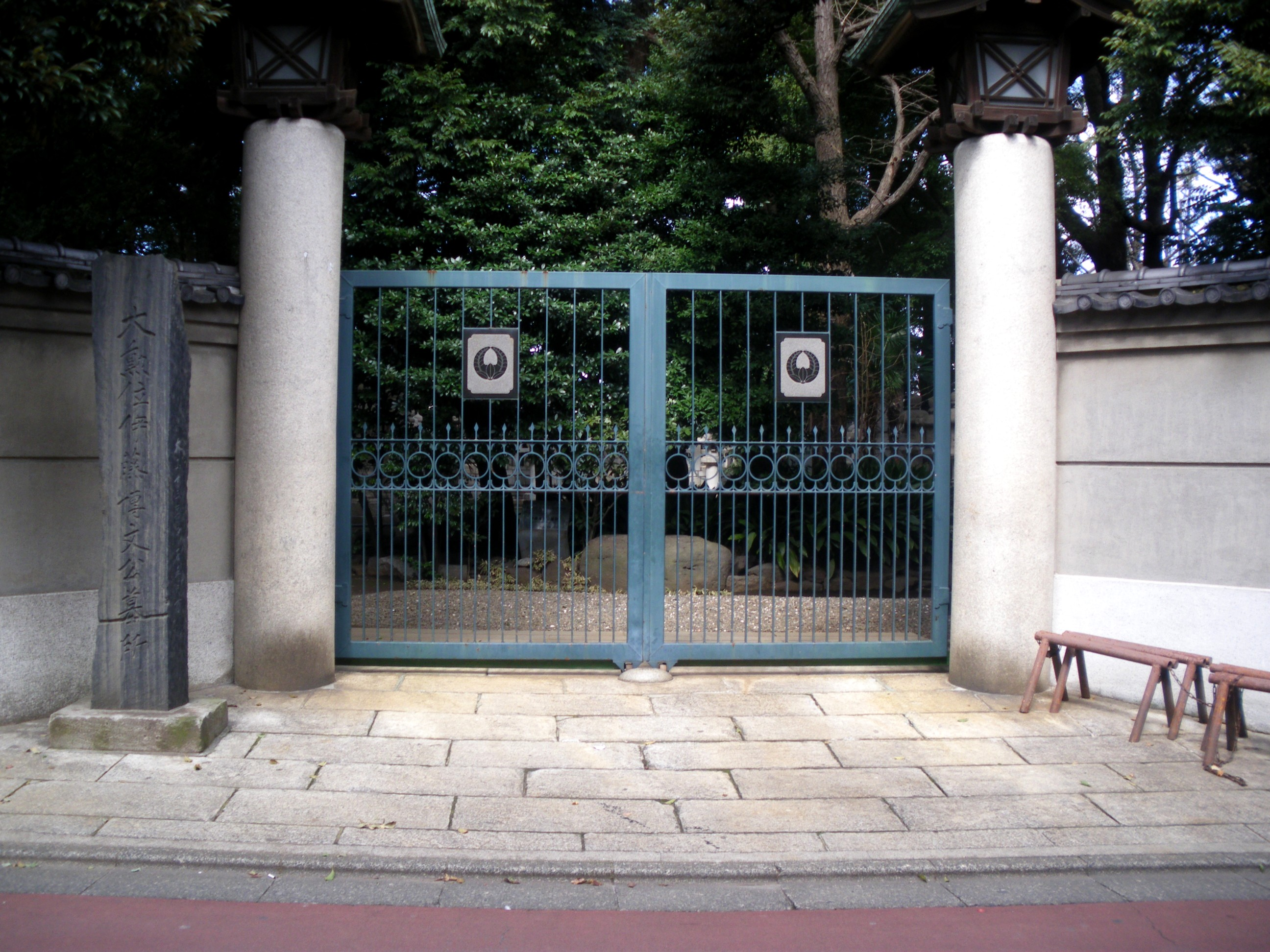 A photo of the entrance of Grave of Hirobumi Itō,Nishioi,Shinagawa-ku,Tokyo,Japan.